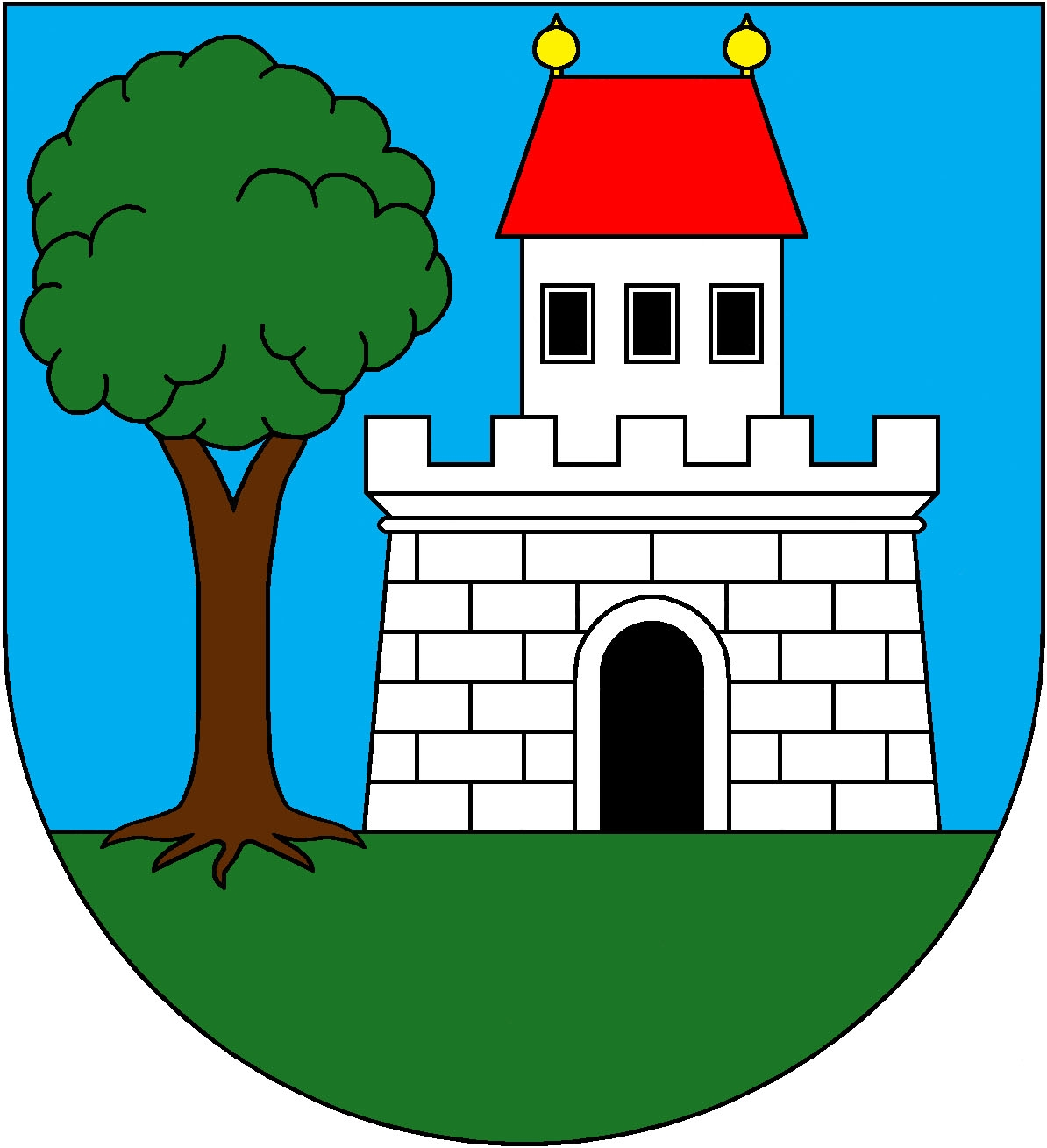 Municipal coat of arms of Úvaly town, Prague-East District, Czech Republic.